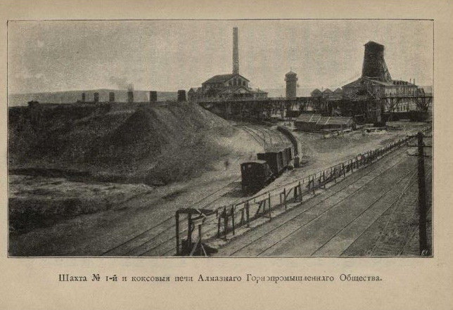 The book, Rodzevich A.I. 1900. Moscow. “Passenger’s companion for SEE, issue 2, Balashovo-Kharkiv, Donetsk Coal, East Donetsk and Yelets-Valuyskaya lines. Moscow. 1900. ""